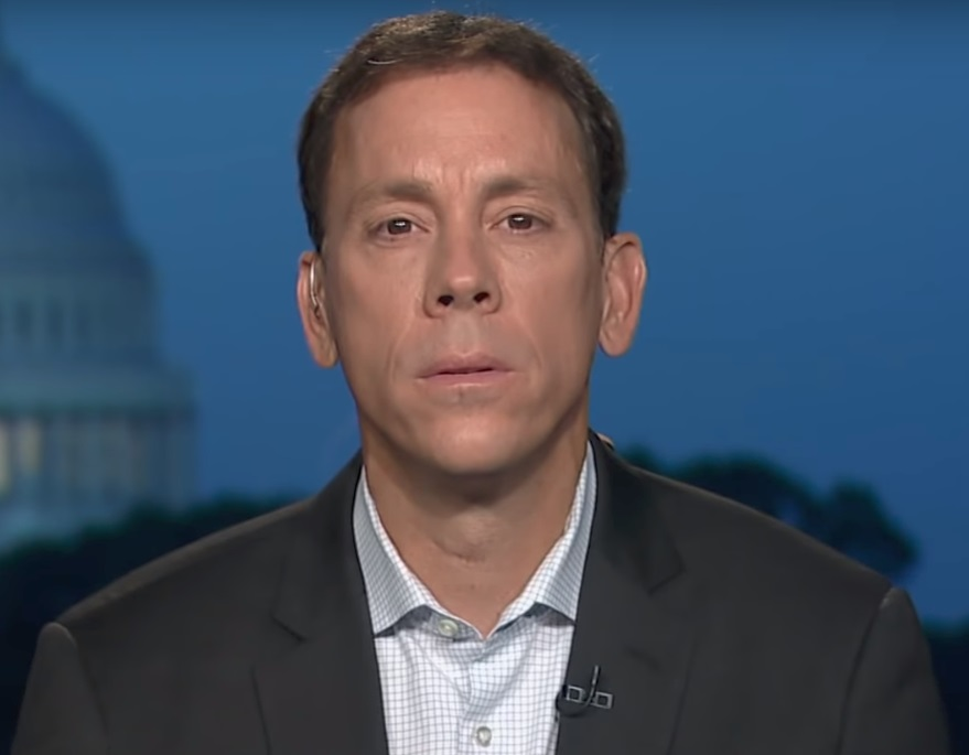 Political journalist Jim VanDeHei on MSNBC's Morning Joe. The president publicly addressed on Wednesday closed-door remarks he made about violence in the country if Democrats win in the midterms. The panel discusses. » Subscribe to MSNBC